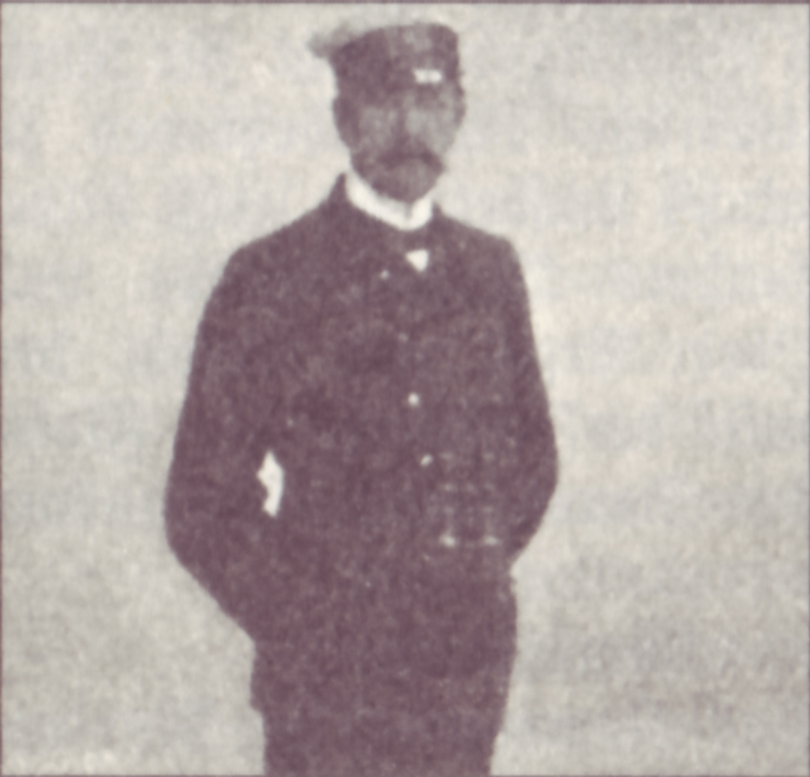 Friedrich Graf von Baudissin (1852-1921), admiral in the Imperial German Navy